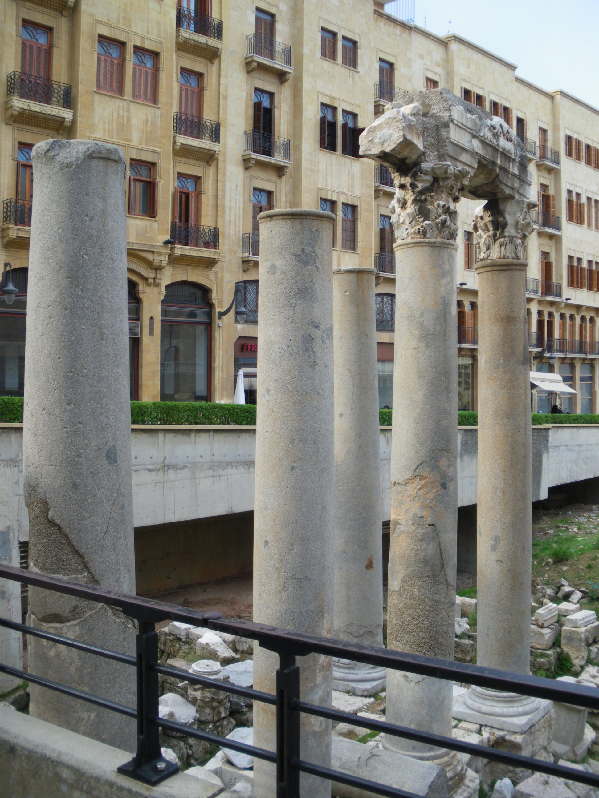 These superb photographic works, we had made during our holiday to Beirut, the capital of Lebanon in November 2008. Thanks to massive security operations in place in the city, we were sometimes hindered to photograph or on one or two occasions, we had been odered to delete certain pictures! So these would not have been all pictures from beautiful Beirut, when we had our way! This was a sad example for a nation, which should be free and should present itself in an open way to the world, especially through photography! Thanks! ( Beirut in November 2008 and the question, can I take a photo and show the world or not? ).